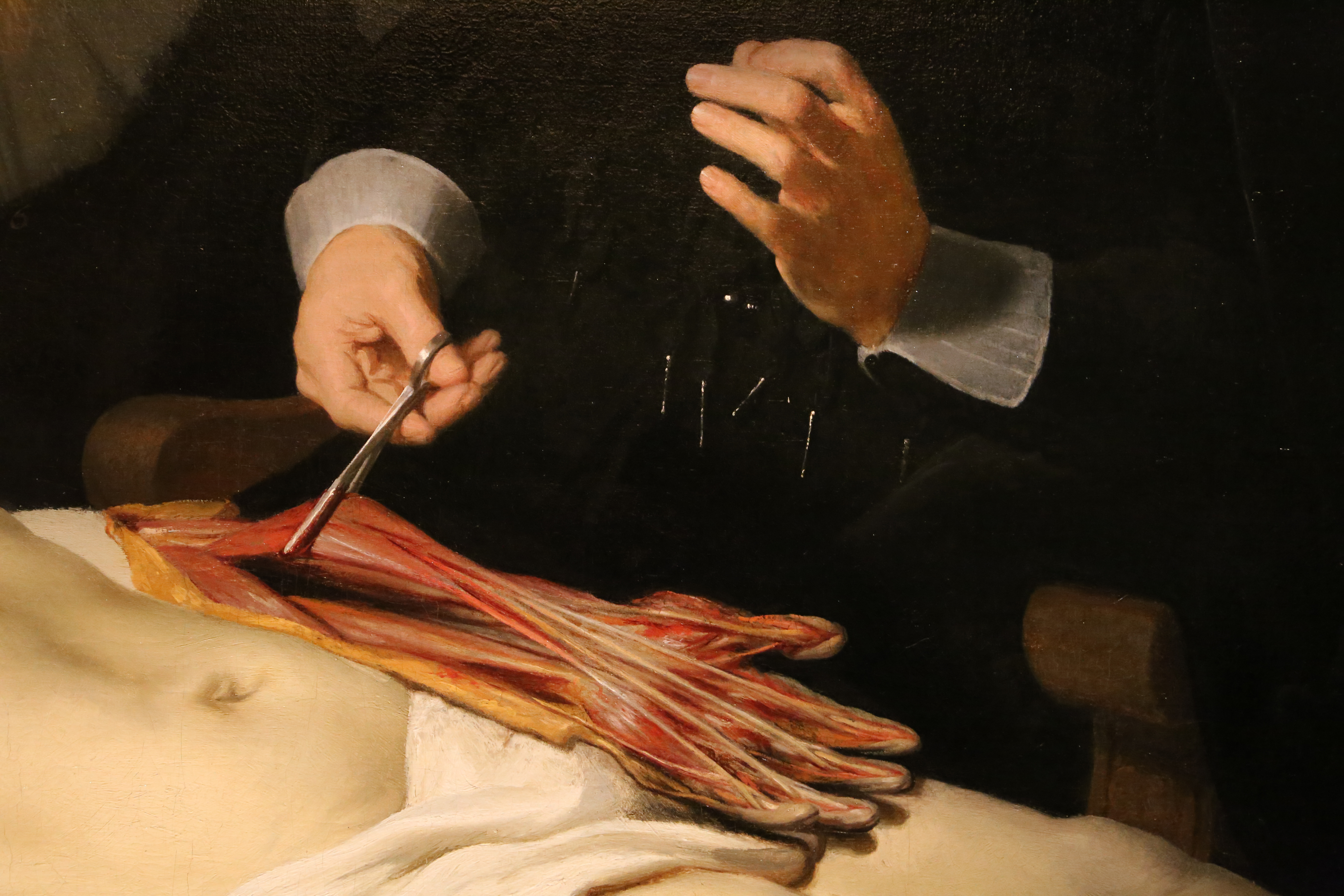 Paintings by Rembrandt in the Mauritshuis